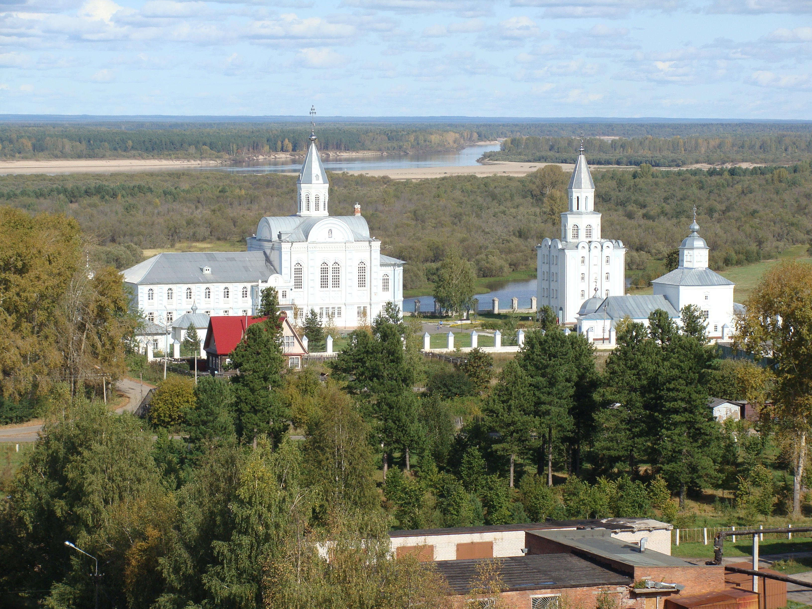 Koryazhemsky Nikolayevsky Monastery